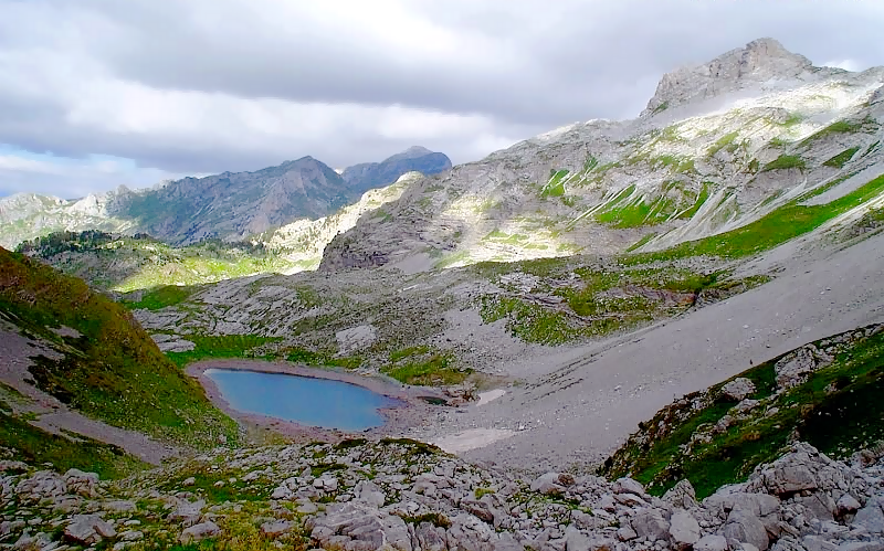 Liqeni i Madh, the largest lake of Buni Jezerce glacial through, Bjeshket e Namuna range, Albania